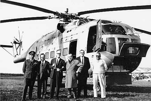 Agusta A.101. Third from right is Count Domenico Agusta. 1964 photo, source and author unknown. Per below, Italian copyright expired in the 1984, therefore not copyrighted in the US.